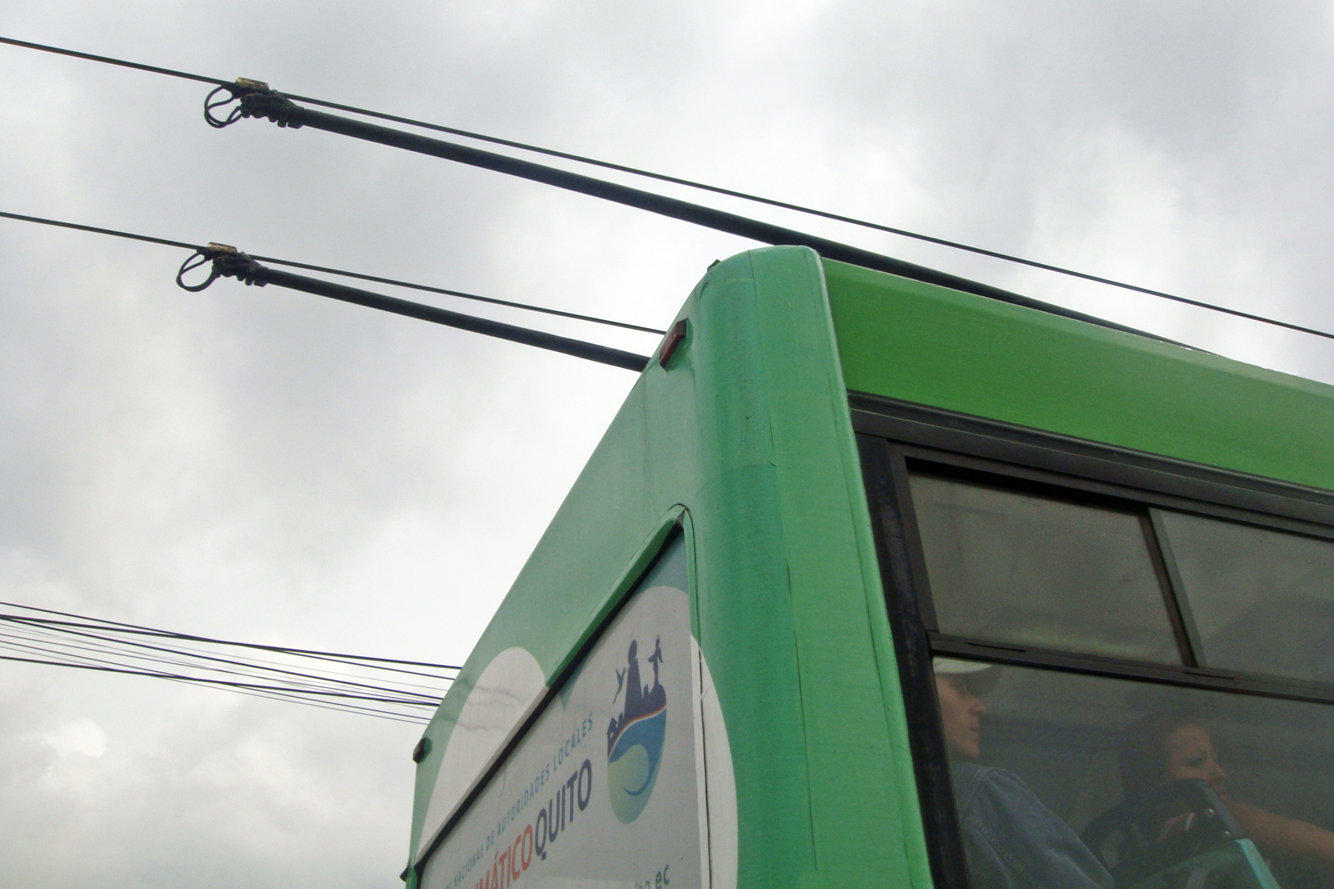 Detail view of the ends of the trolley poles and trolley-heads on the catenary/wires of Quito's trolleybus BRT system